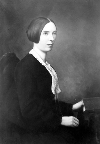 Canterbury Museum, Reference: 12504